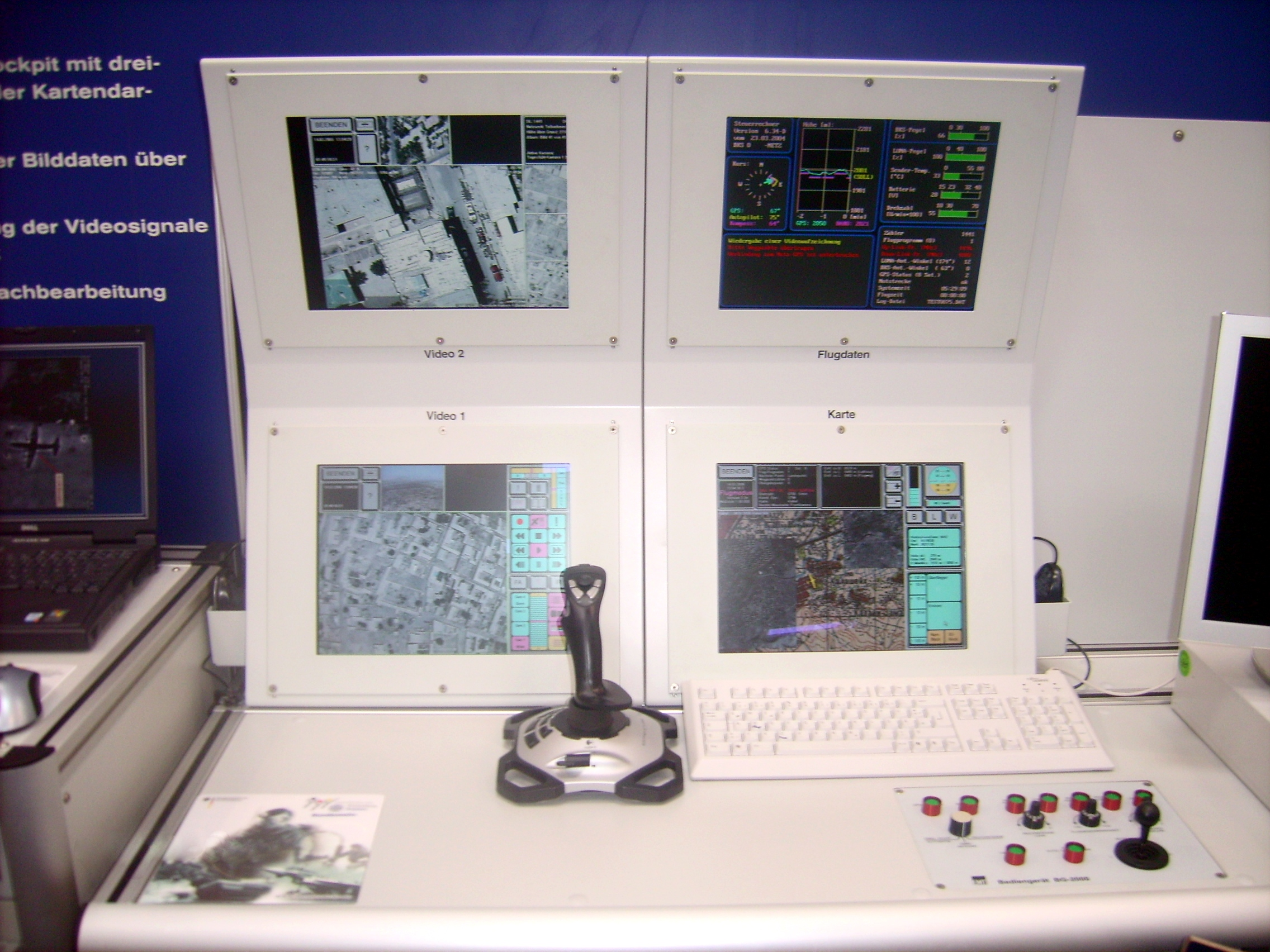 Description : UAV Luna x-2000 control unit, CeBIT 14. 03. 2006 Source/Photograph : Michael Date : 2006-03-14 Upload : Michael